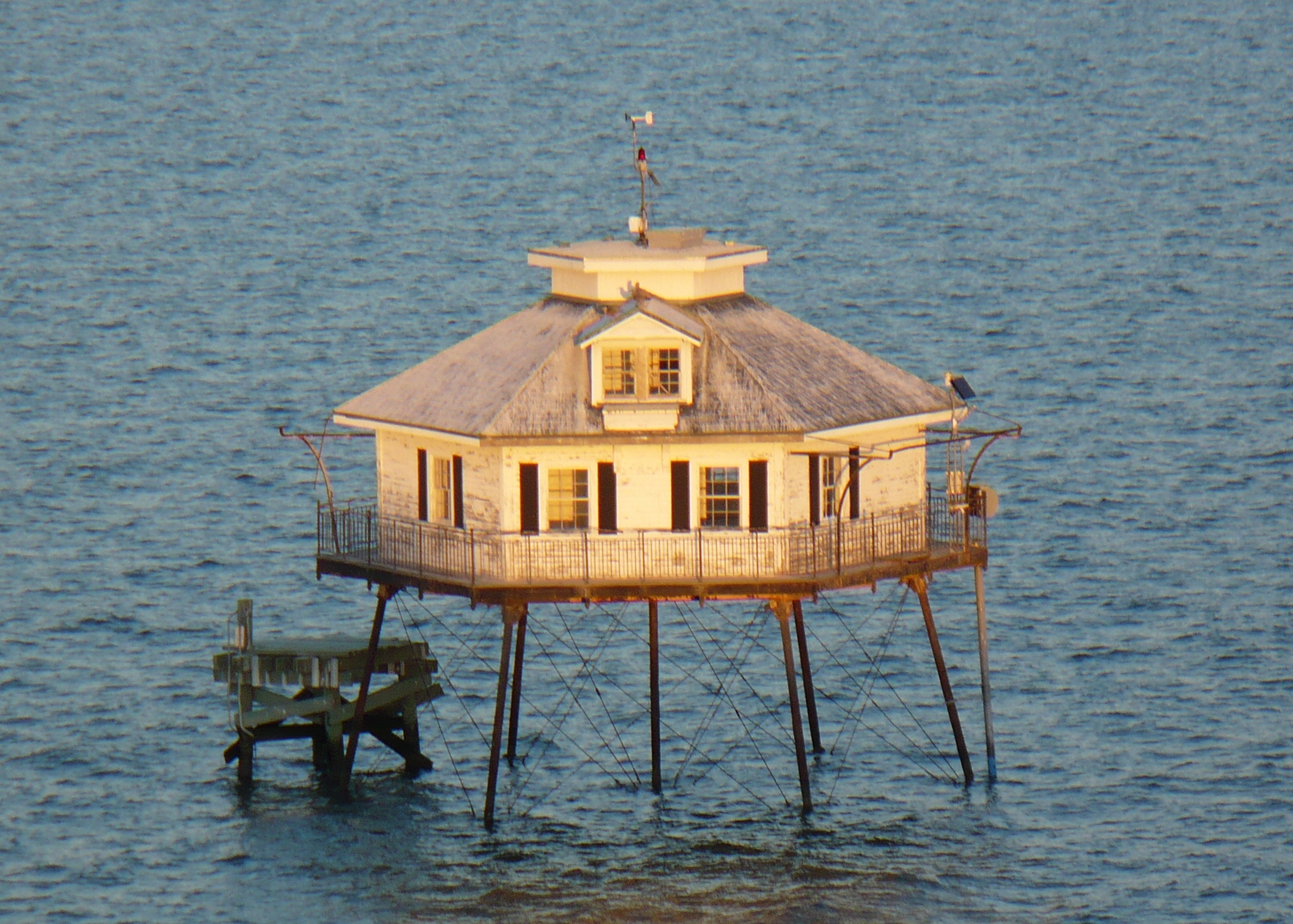 View of the Middle Bay Lighthouse in Mobile Bay, near Mobile, Alabama. Taken from onboard the MS Holiday.